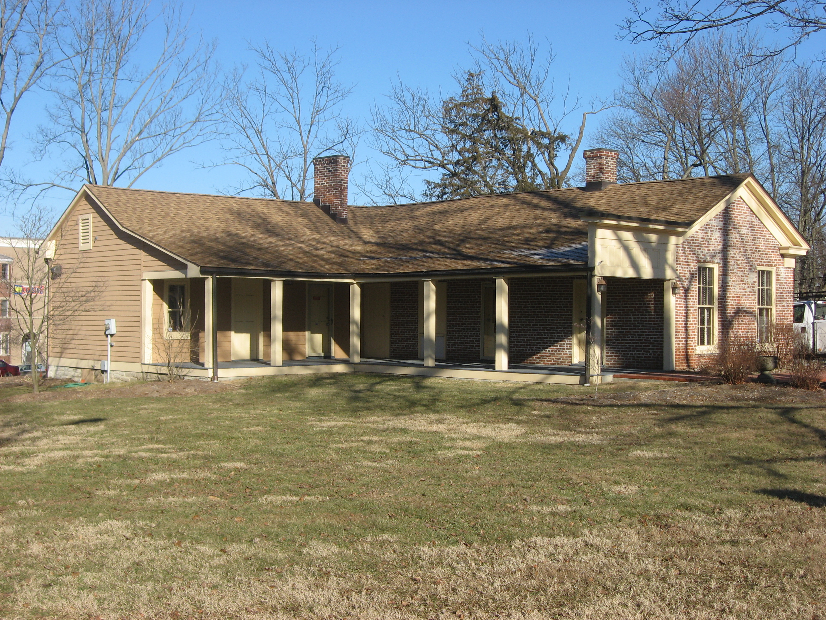 Southeastern corner of the Legg House, located at 324 S. Henderson Street on the campus of Indiana University in Bloomington, Indiana, United States. Built in 1848, it is listed on the National Register of Historic Places.